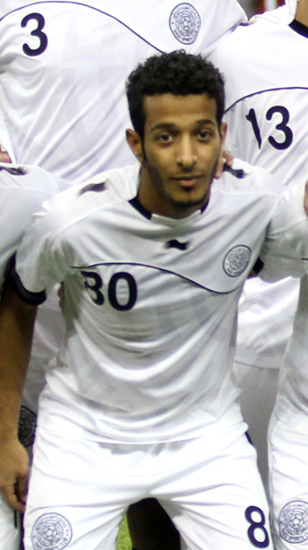 Members of the Al Sadd team pose for a picture prior to the start of the Sheikh jassim Cup final at the ASPIRE Academy Indoor Pitch. Picture by Vinod Divakaran